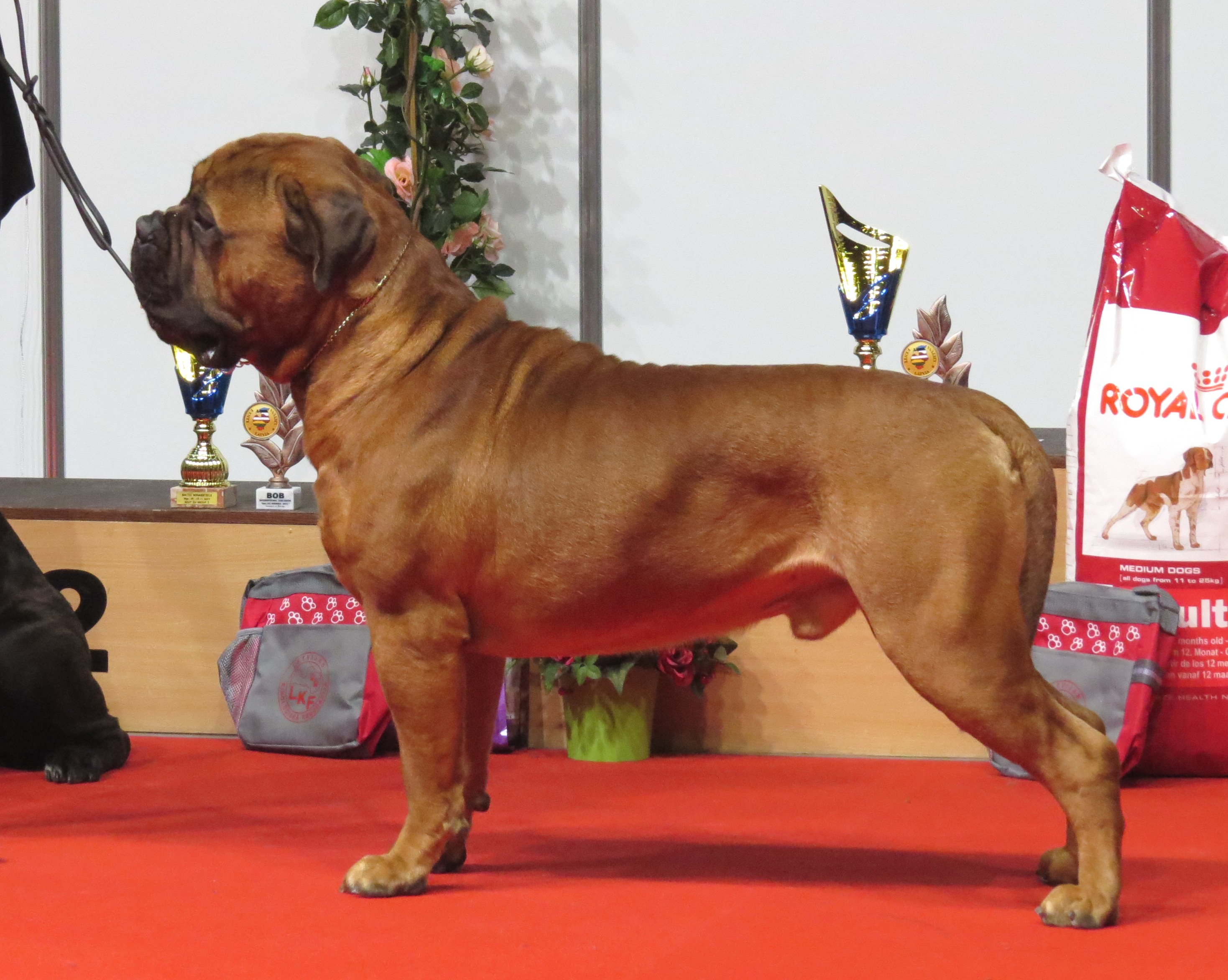 Riga, Baltic Winner -2013, 9-10 Nov